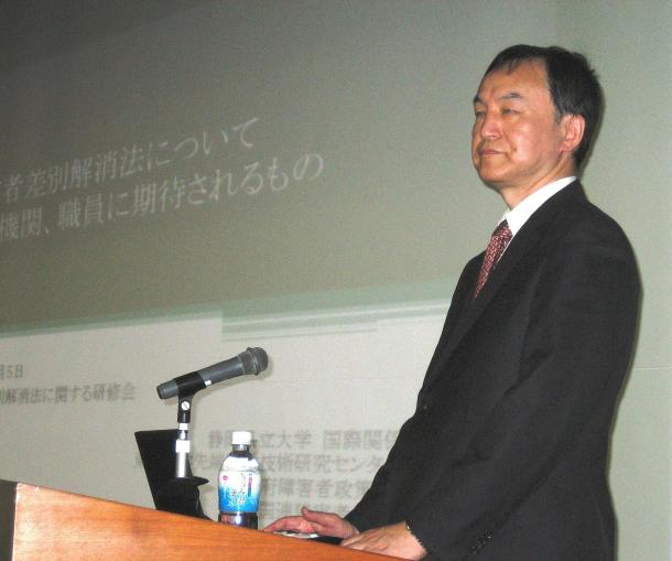 Jun Ishikawa, Professor of the School of International Relations, University of Shizuoka, gave a lecture in Aichi Prefecture on December 5, 2017.